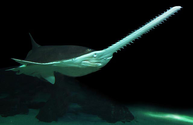 Pristis pectinata (Aquarium of the Americas)